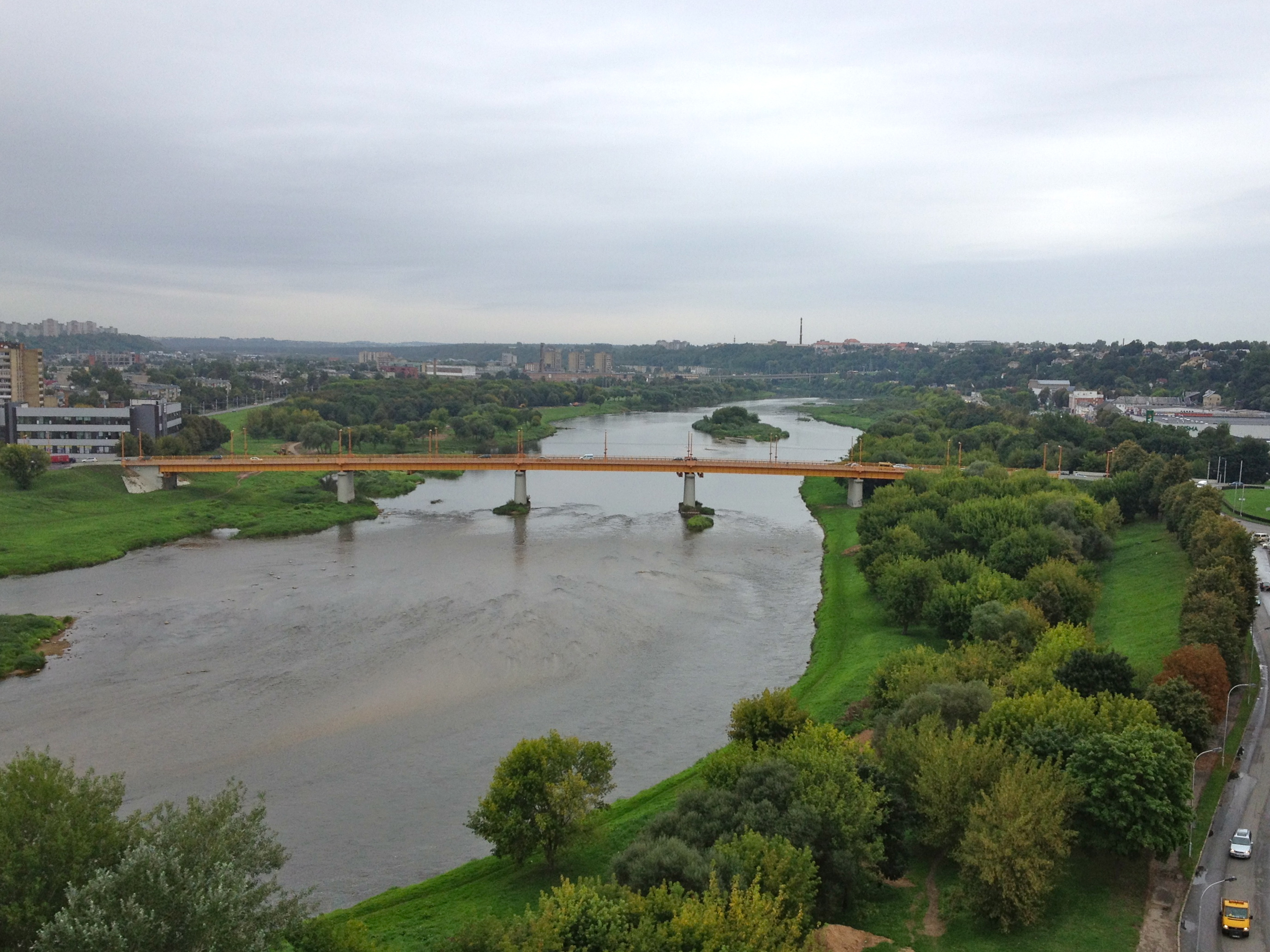 Vilijampolės bridge from birds eye viewLietuvių: Vilijampolės tiltas iš paukščio skrydžio